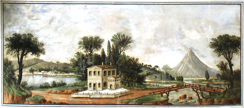 Istanbul - Topkapi Palace - Detail of the "Gate of Felicity" (Baab-i-Sadet), the gate between the first and the second court. Picture by: Giovanni Dall'Orto, May 27 2006.